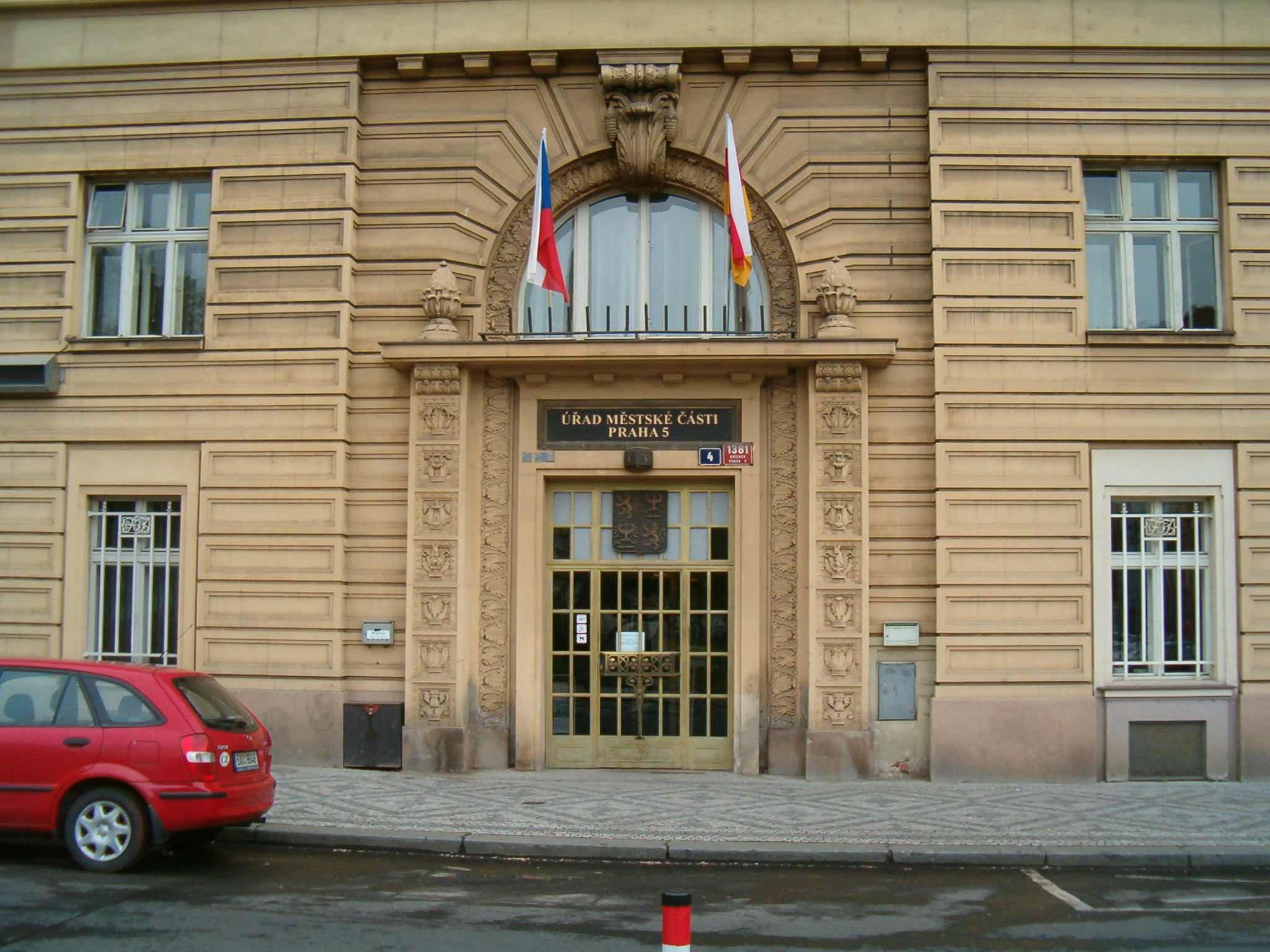 Prague 5 town hall